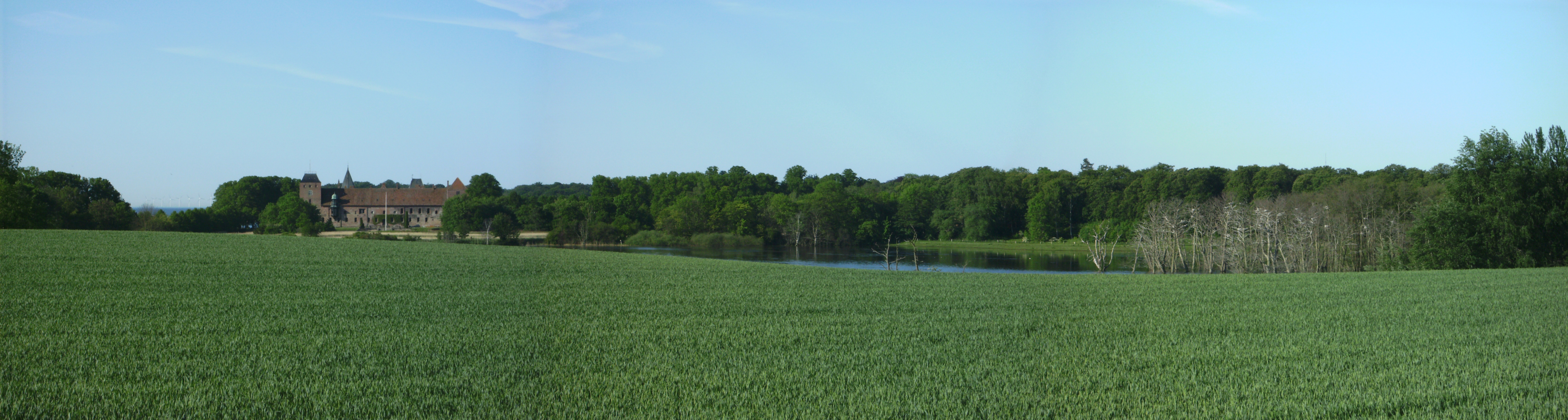 Ålholm Castle, Nysted, Denmark